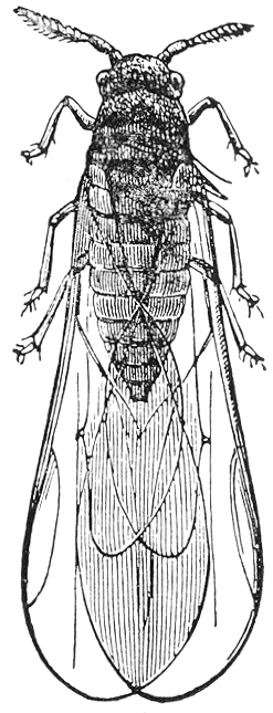 Illustration of a daktulosphaira vitifoliae. The original caption read: Fig. 528.--Phylloxera vastatrix. (From Ludwig-Leunis.)